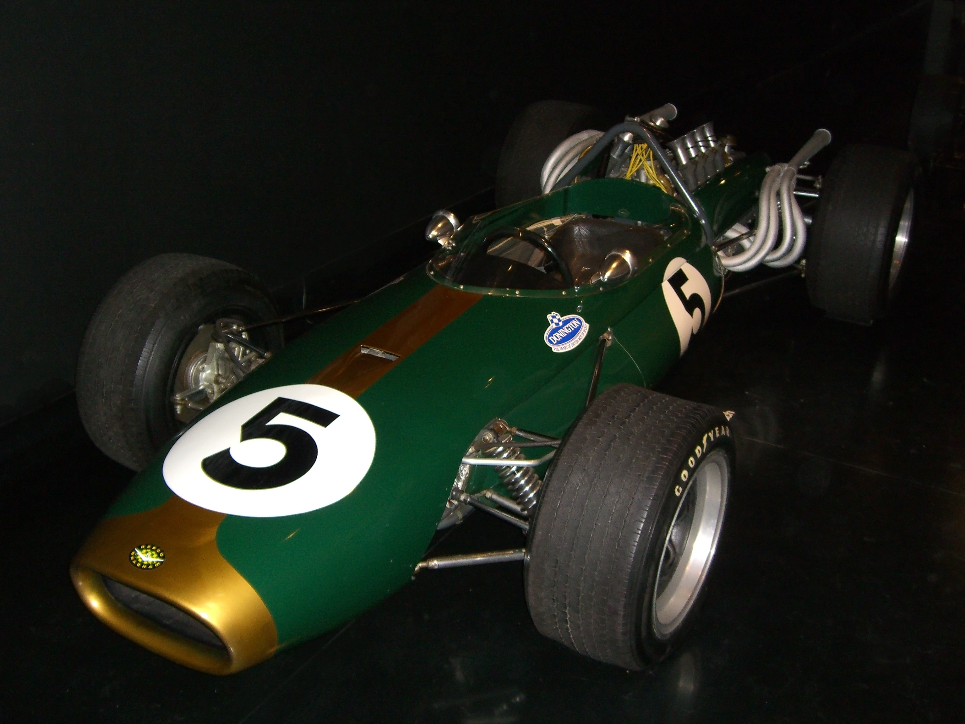 Brabham BT20 from Formula One The Great Design Race (1 July - 29 October, 2006) in the Design Museum London [1]